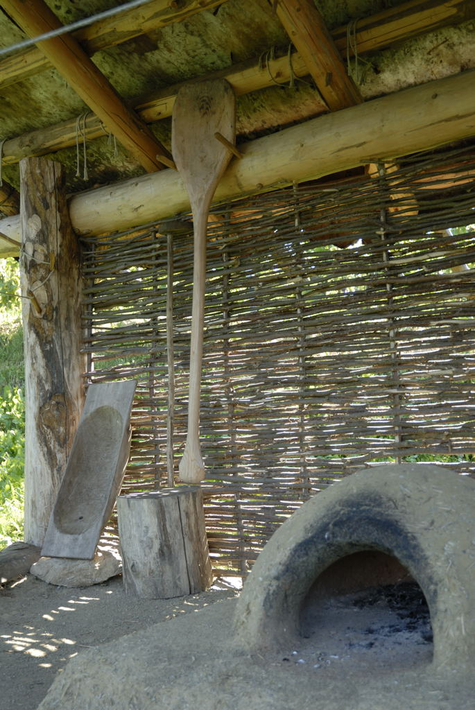 Reconstruction of a bakery house from the Hallstatt-era settlement on the Burgstallkogel in the Sulm valley (Southern Styria, Austria)